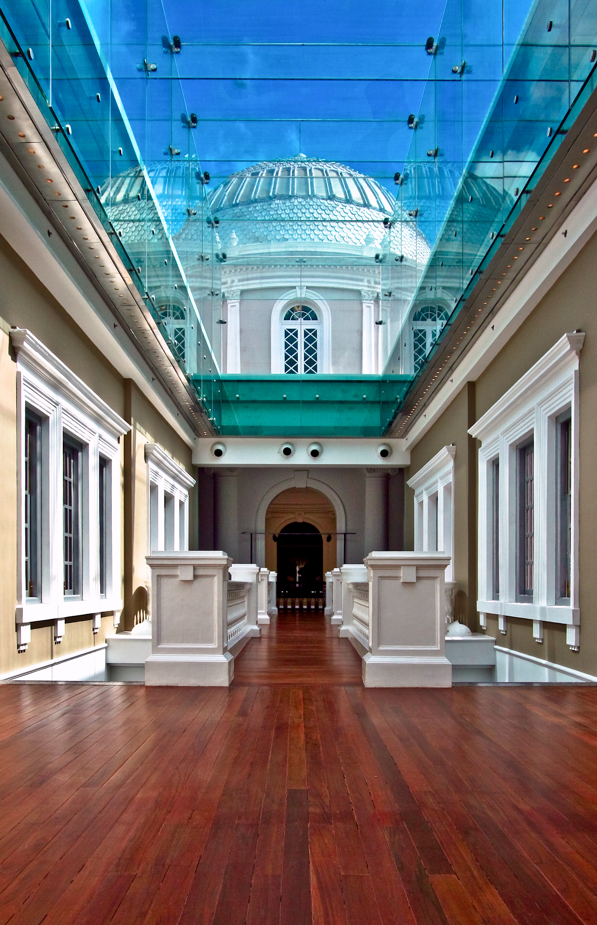 The Passage way of the Singapore National Museum.